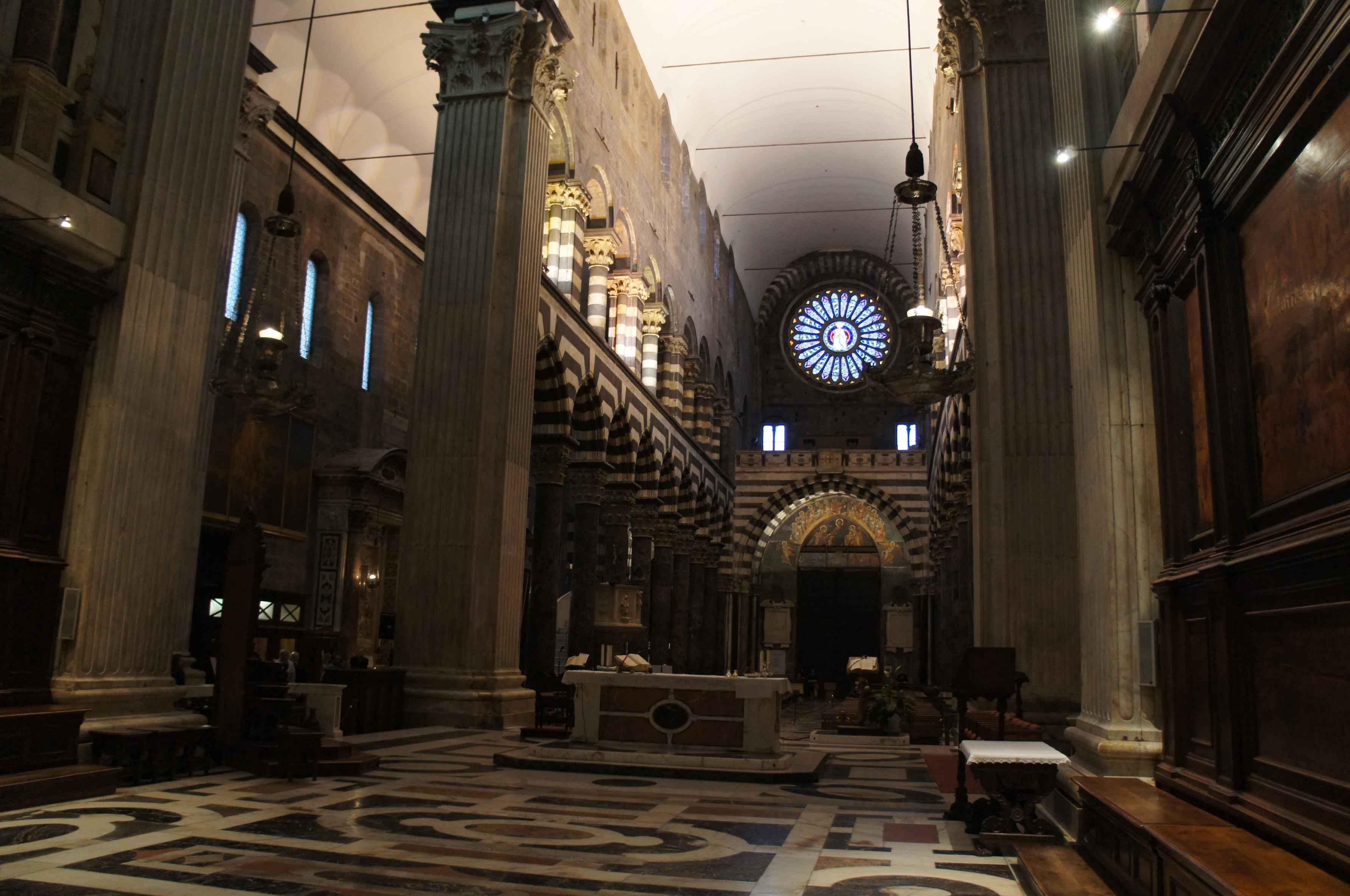 Interior of the Cathedral of San Lorenzo, Genoa